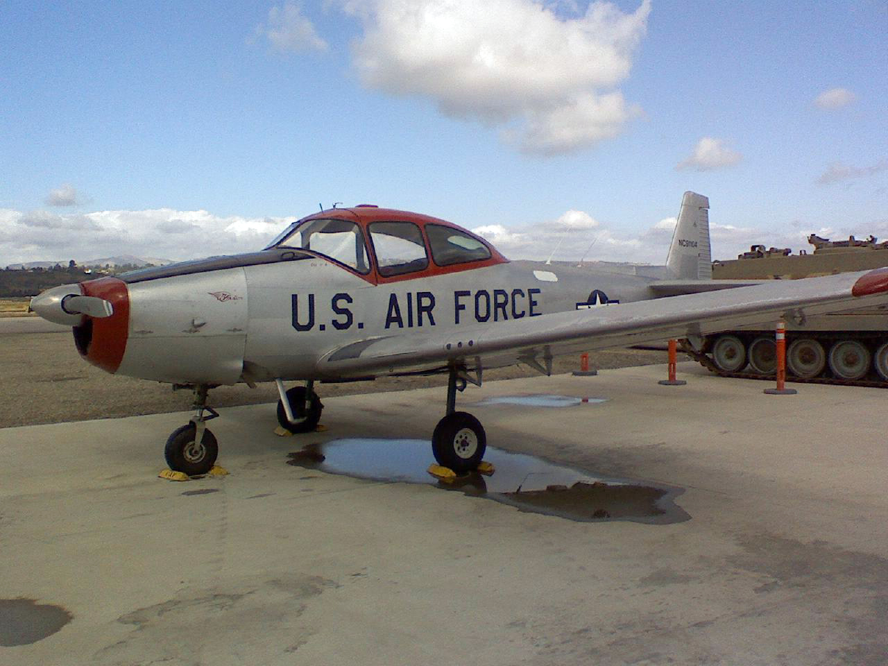 North American L-17 Navion, Camarillo Airport Museum, Camarillo, California, USA